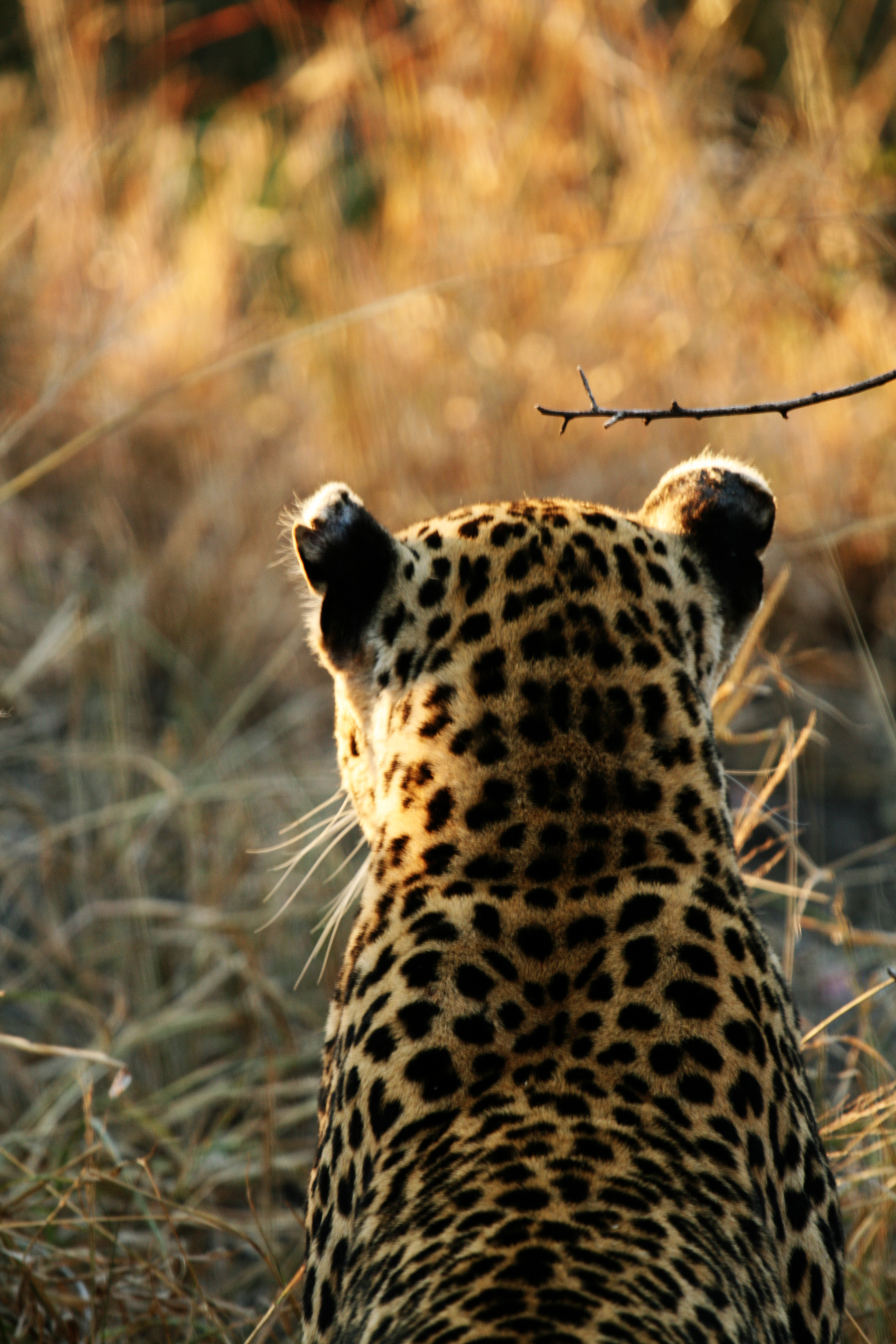 Photo by Lee Berger. View from rear of Leopard in the Sabi Sands, South Africa.